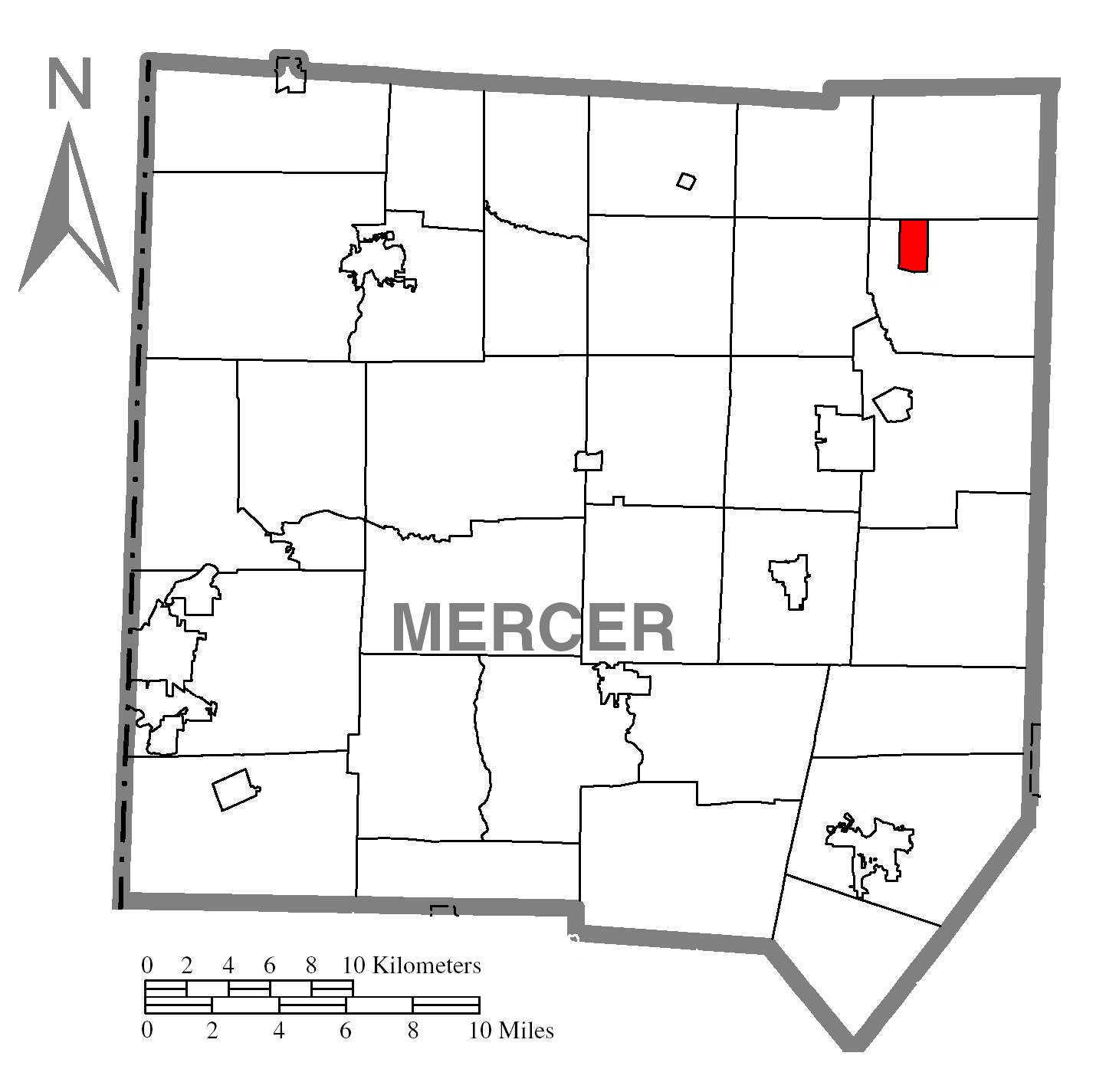 Map of Mercer County higlighting New Lebanon.